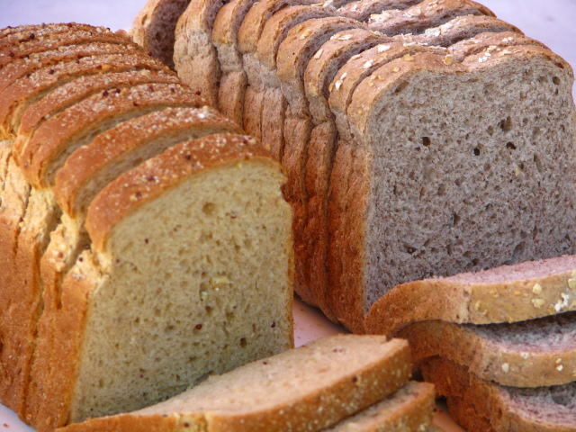 Bread from India